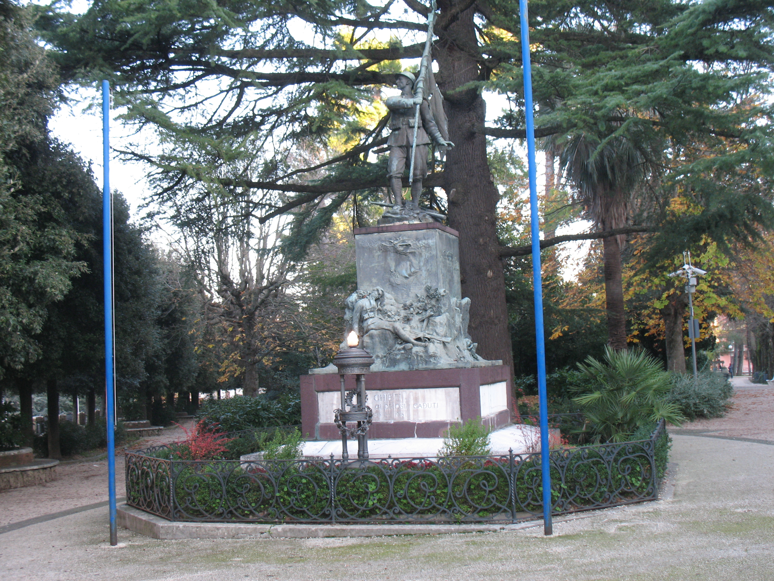 Monument dedicated to the victims of the First World War in the civic park of Chieti.